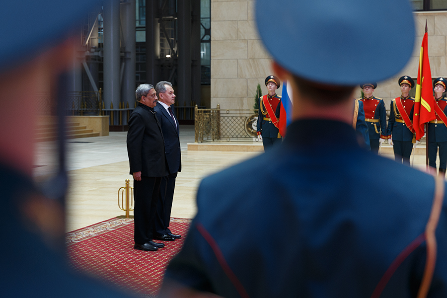 Session of the Russian-Indian intergovernmental commission on military and technical cooperation